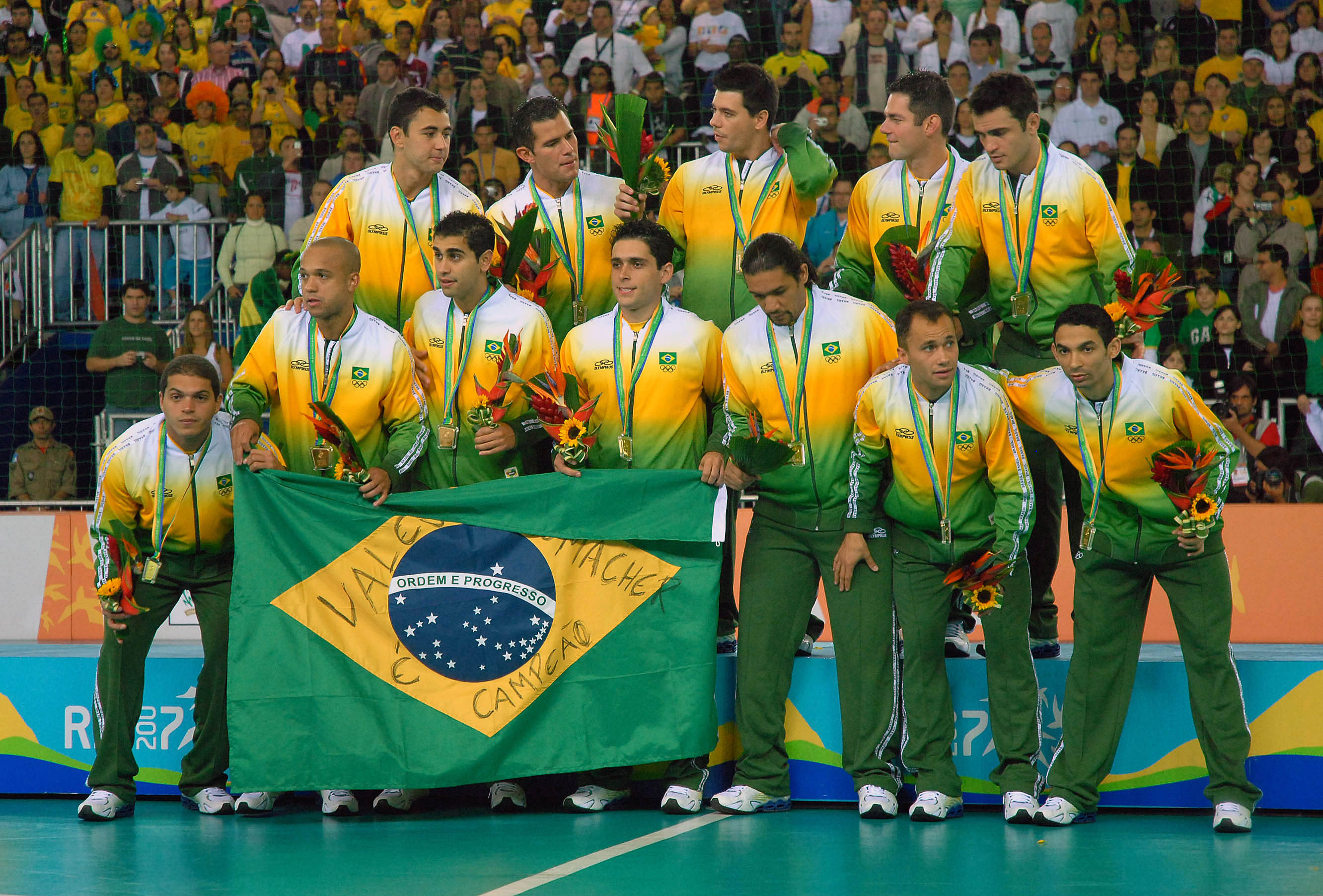 The Brazilian national team wins the Men's Futsal event at the 2007 Pan American Games in Rio de Janeiro